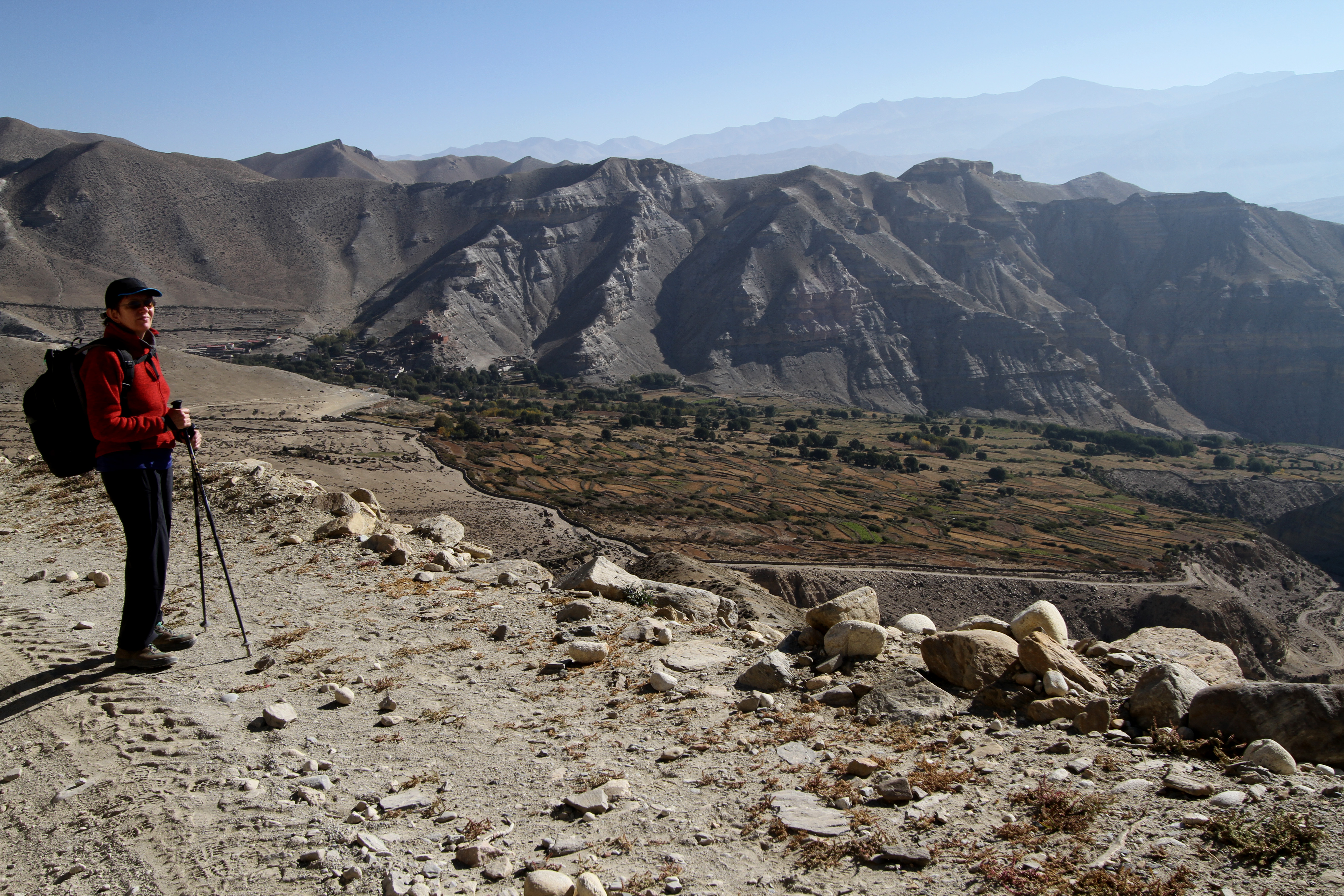 Syangboche La, pass in Mustang